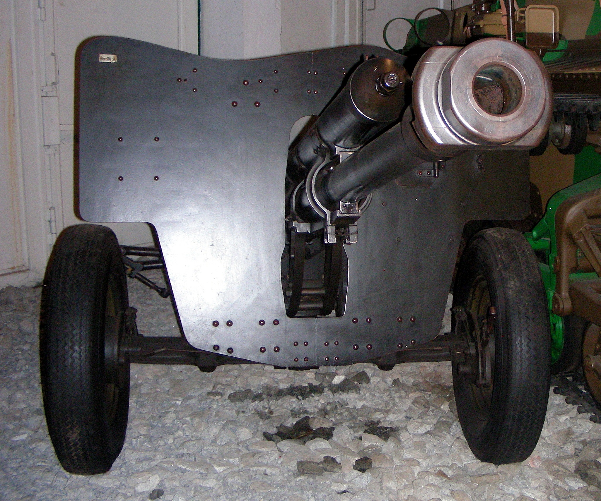 Czechoslovakian anti-tank gun Type 38 (KPÚV vz. 38). German 4,7cm PaK 38(t). Military Technical Museum Lešany.